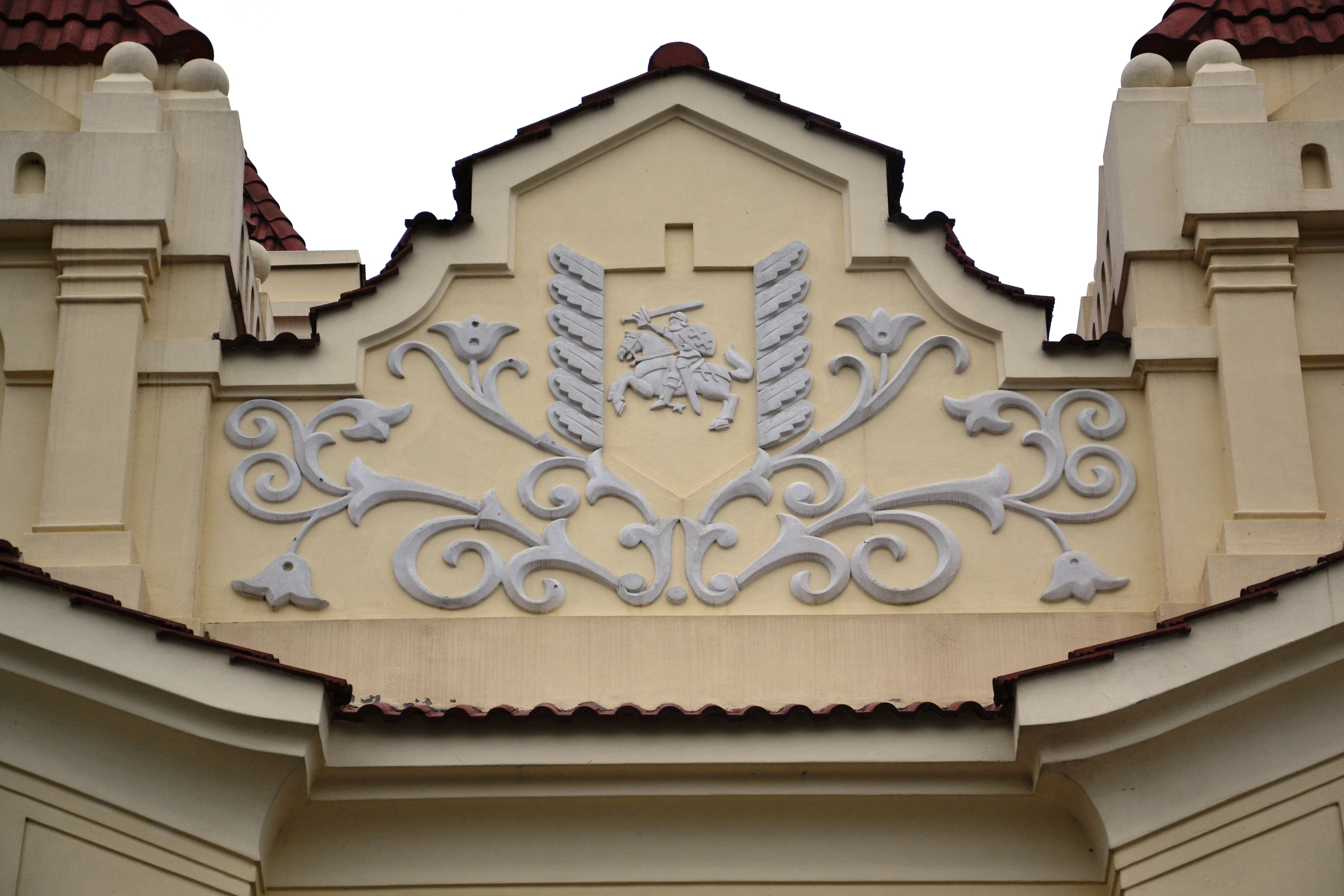 Decor of Marijampole railway station building, Lithuania